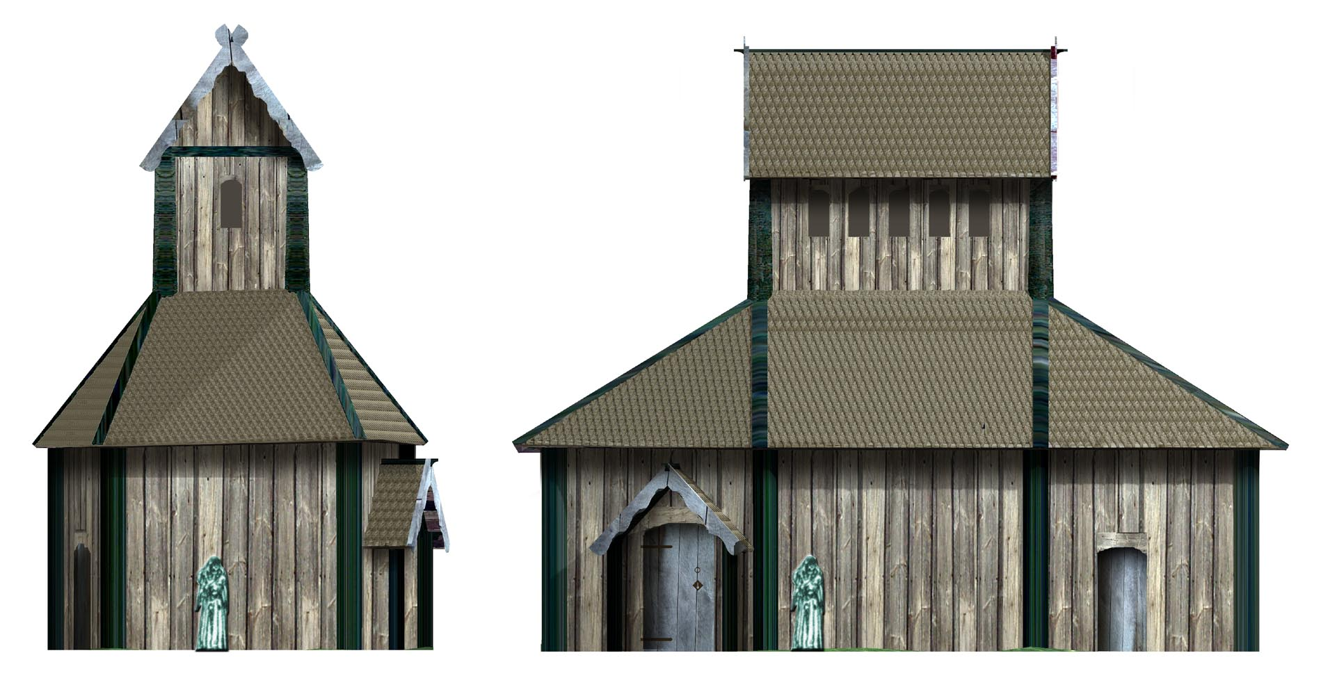 Reconstruction of the Heathen tempel of Uppåkra in Sweden by the archaeologist Sven Rosborn from The Museum of Foteviken.